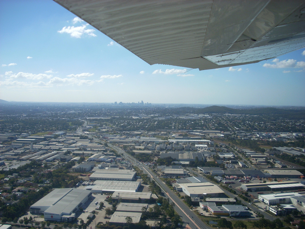 On a general aviations flight from Archerfield Airport